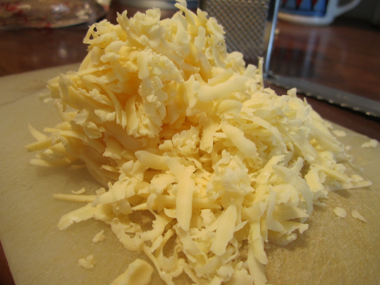 Grated cheese